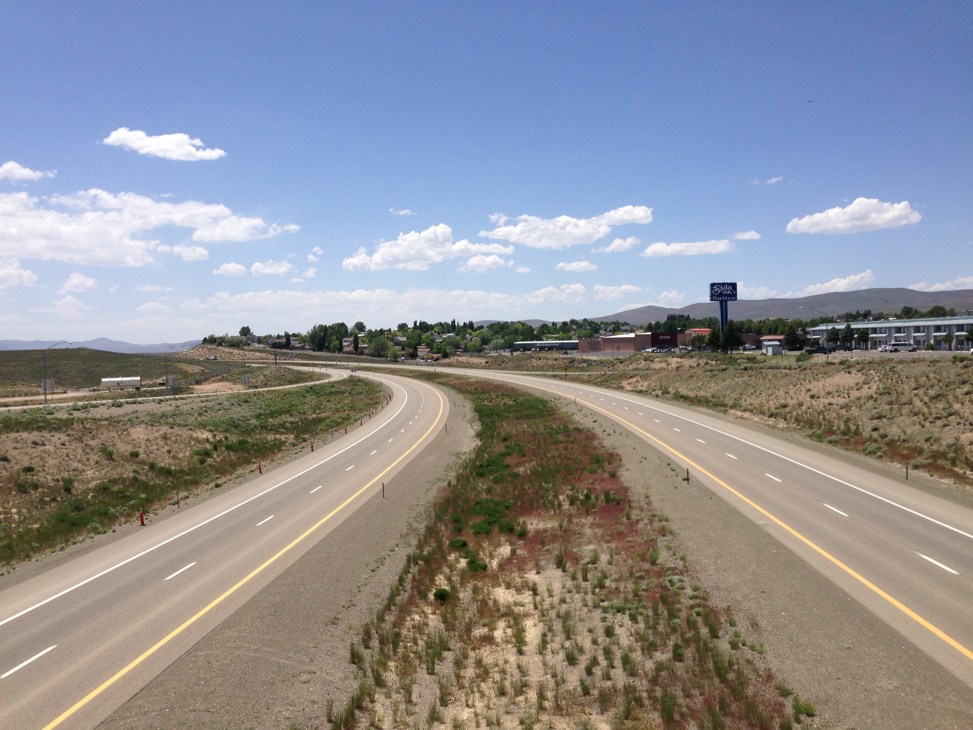 View west along Interstate 80 from the Exit 301 overpass in Elko, Nevada